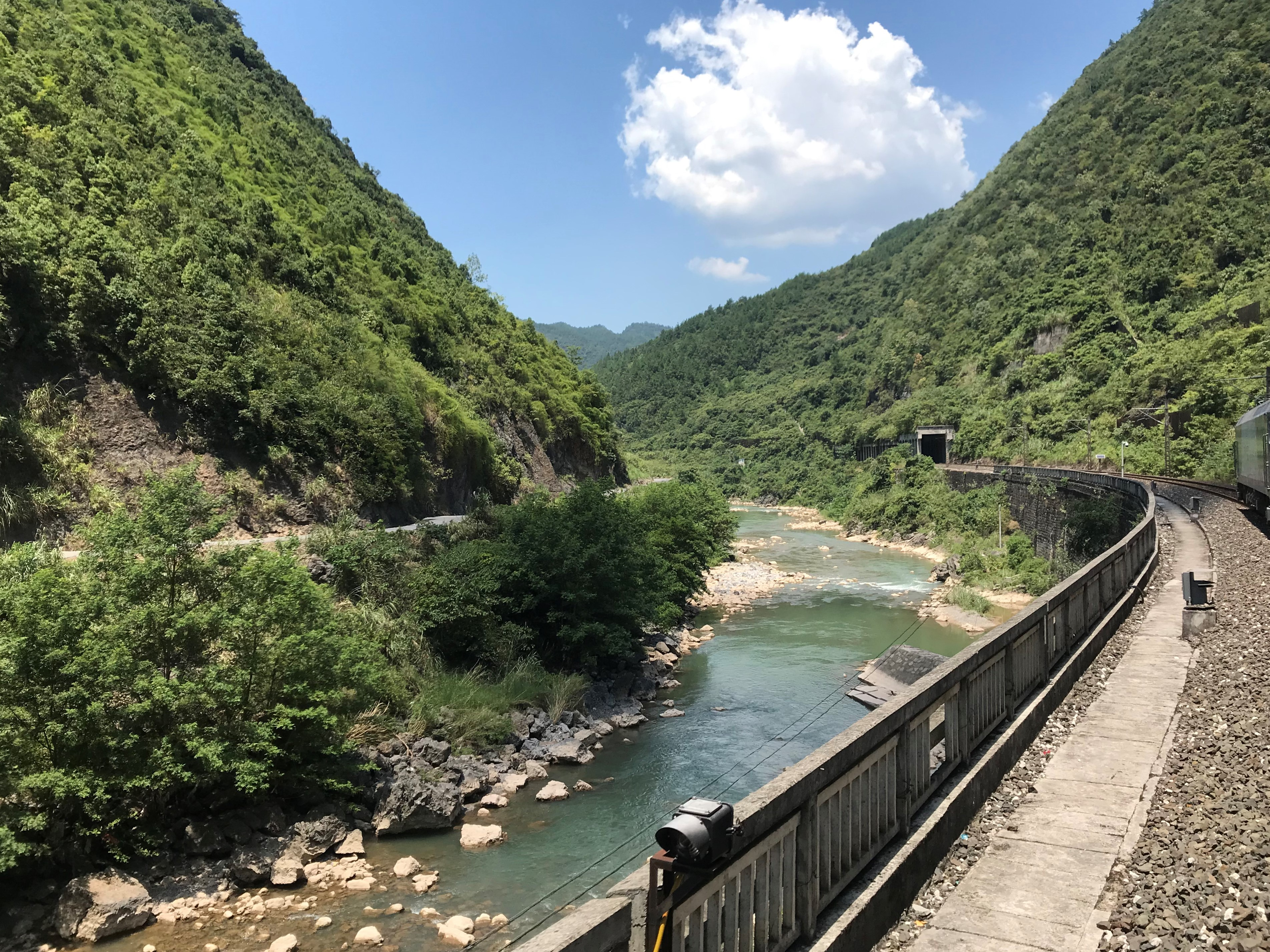 201908 Sichuan-Guizhou Railway in Mugua near Songkan River